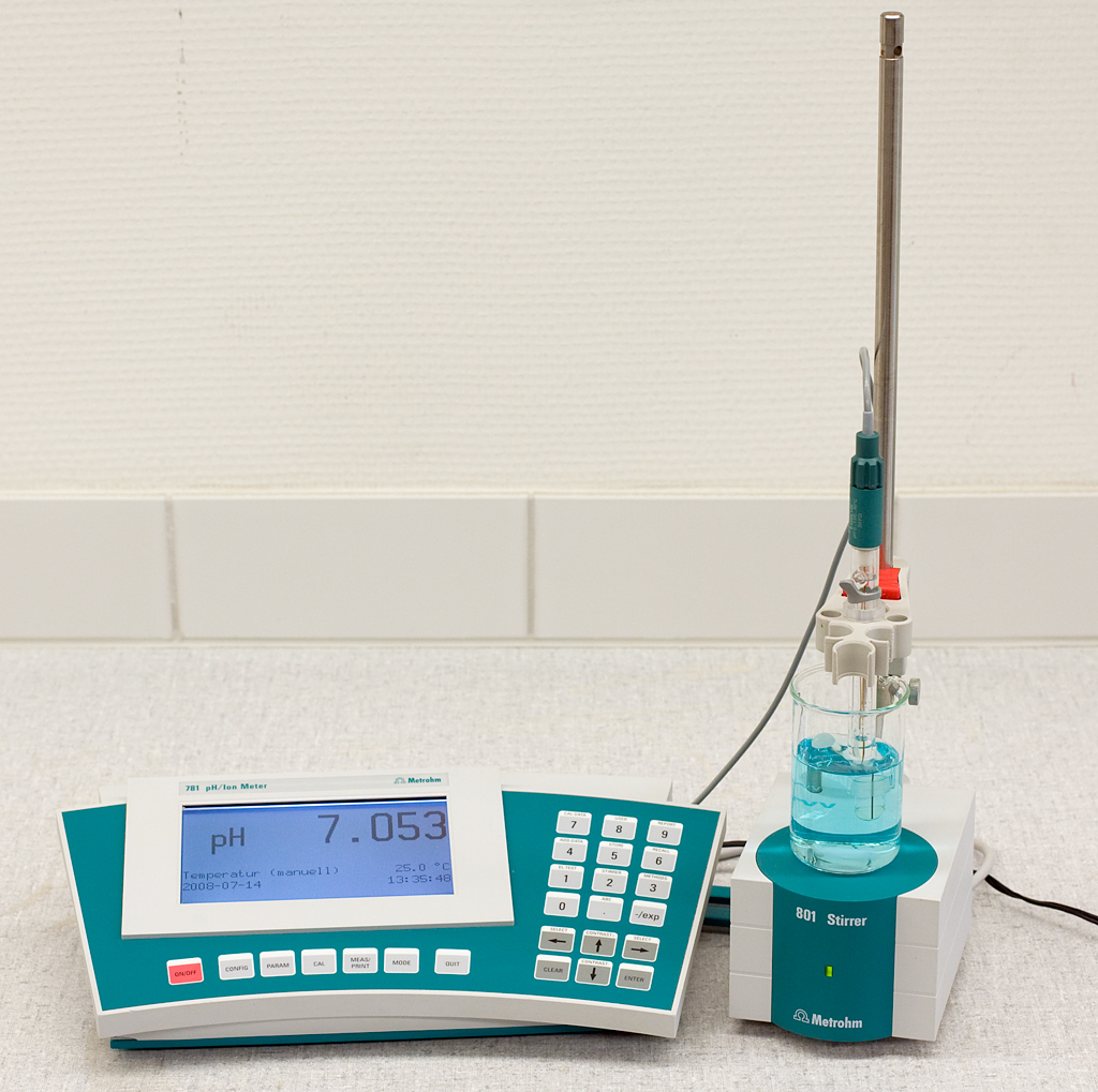 781 pH/Ion Meter pH meter manufactured by Metrohm